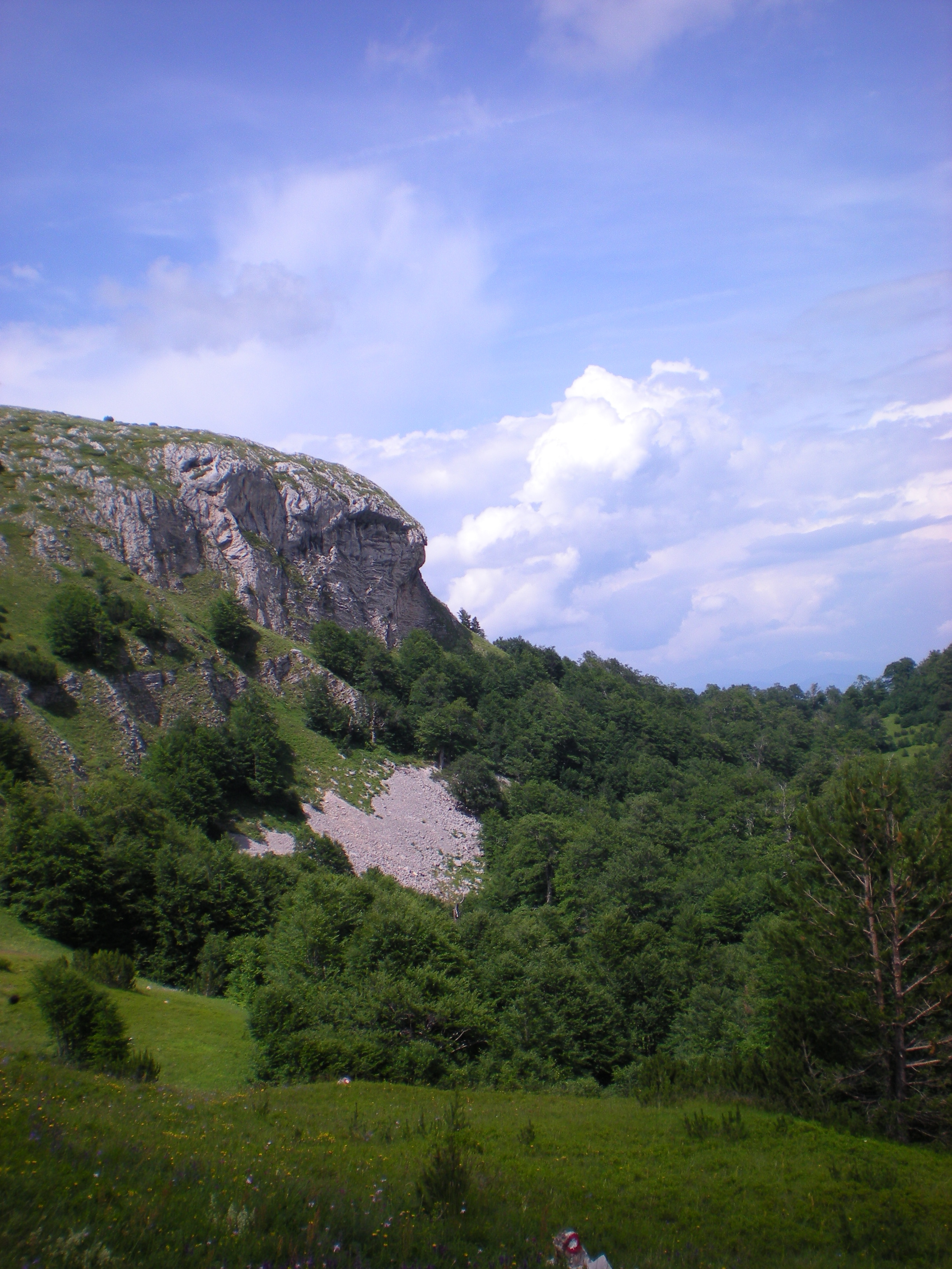 Clouds behind a rocky outcrop of Velika Lelija